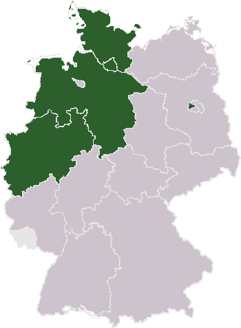 Germany after WWII – British zone, Berlin sector (other were: American, French, Soviet) Author: Wiki-vr (based on image Image:Map_objekt_and_num_file_final.png by Jack the Shark)